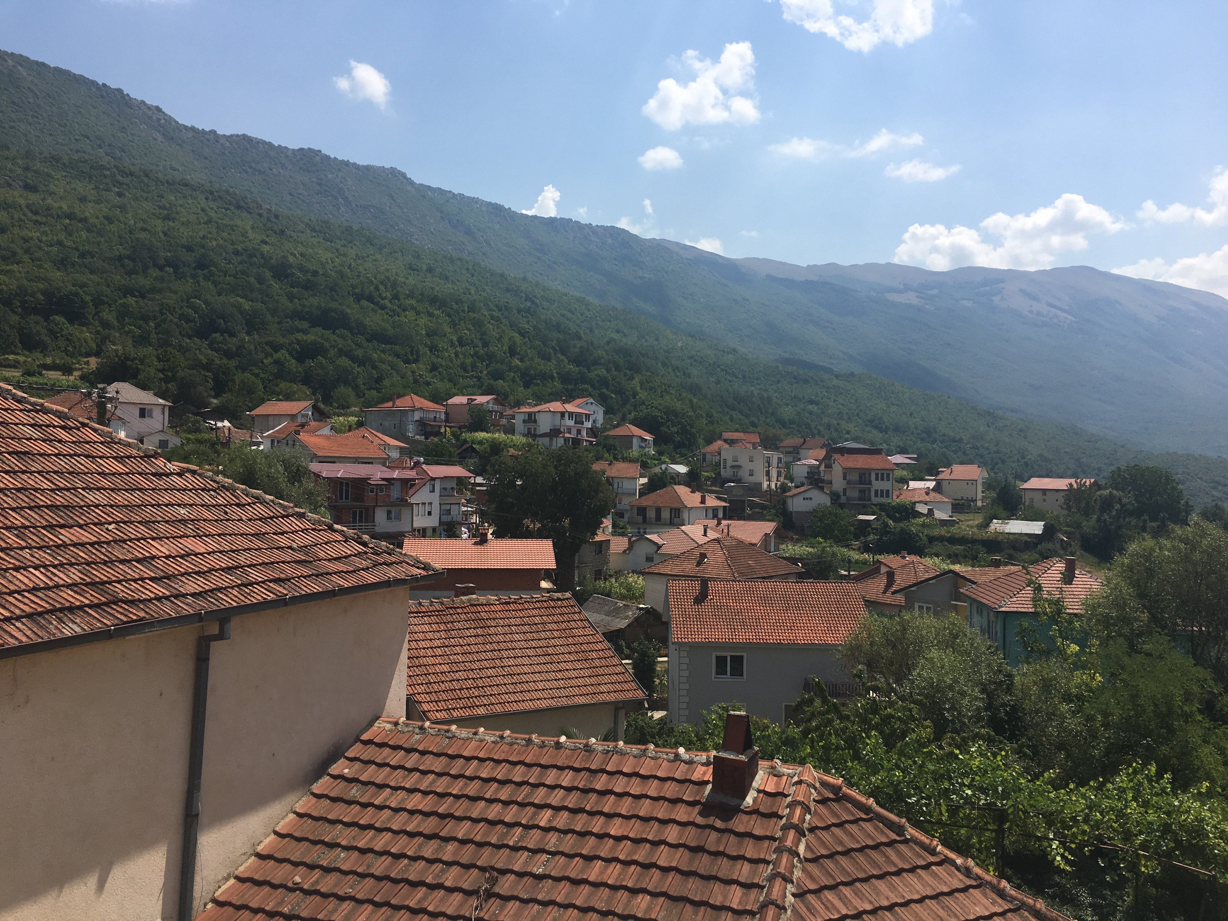 A view of the village of Elšani